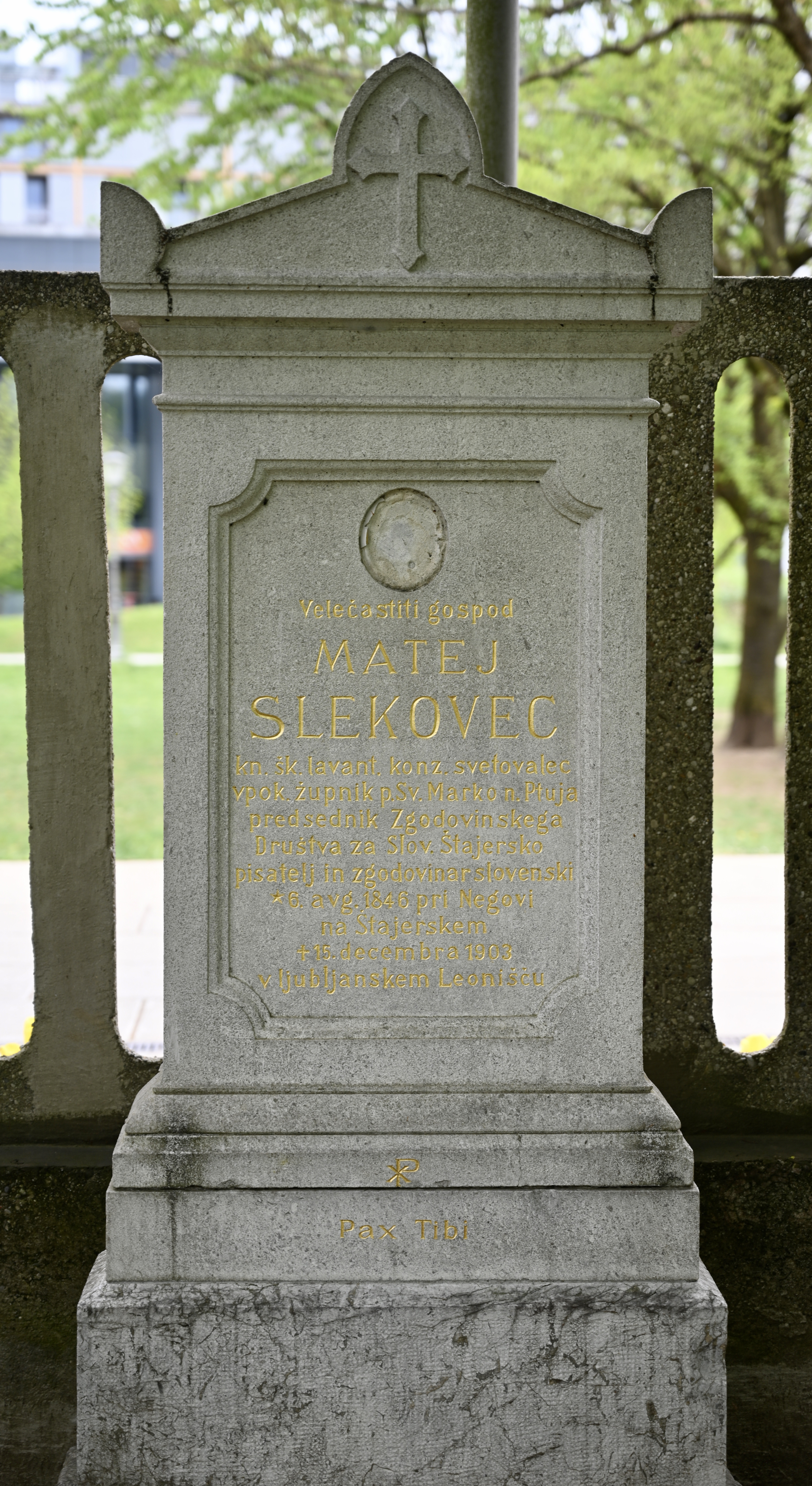 Tombstone of Matej Slekovec, a Slovenian Catholic priest and historian, at Navje in Ljubljana